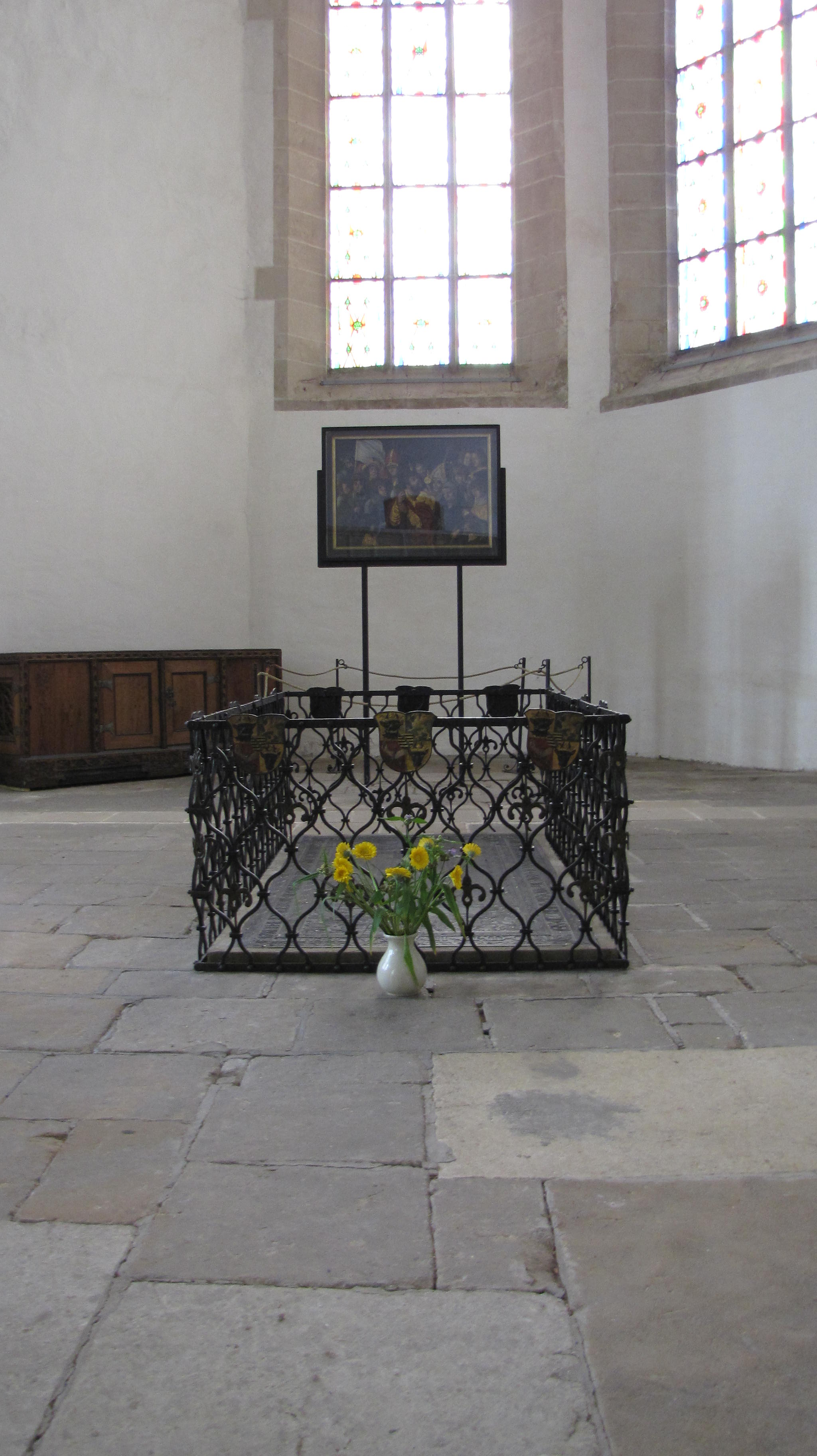 View of gravesite of Sophie duchess of Mecklenburg (+ 1503) in the Marienkirche, Torgau